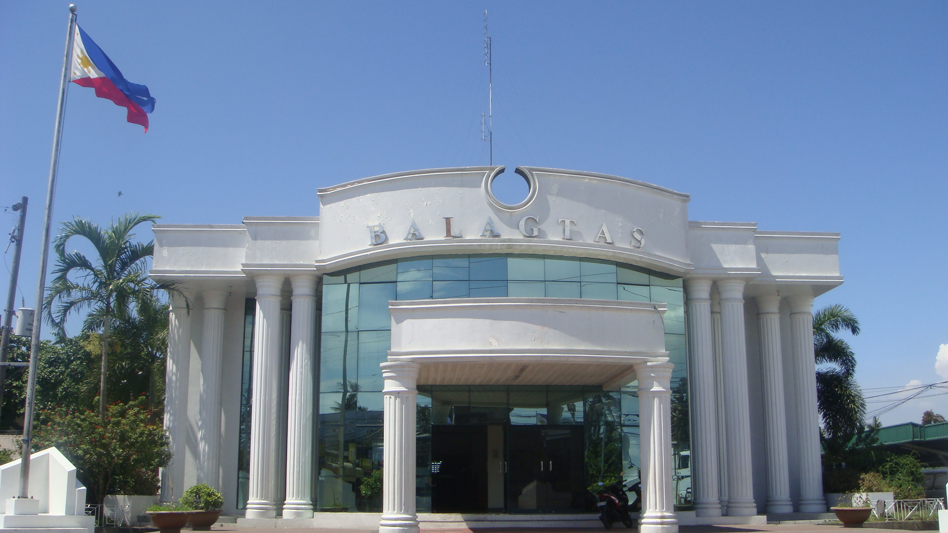 Balagtas, Bulacan Town hall